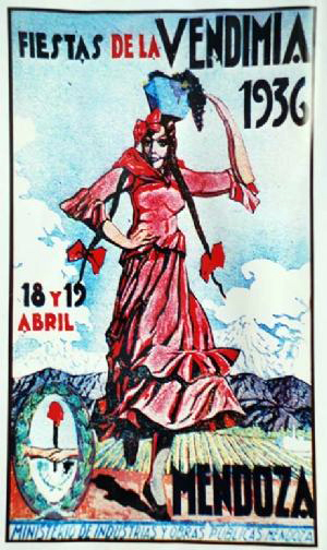 The first poster of "Fiesta de la Vendimia",Mendoza, Argentina. 1936